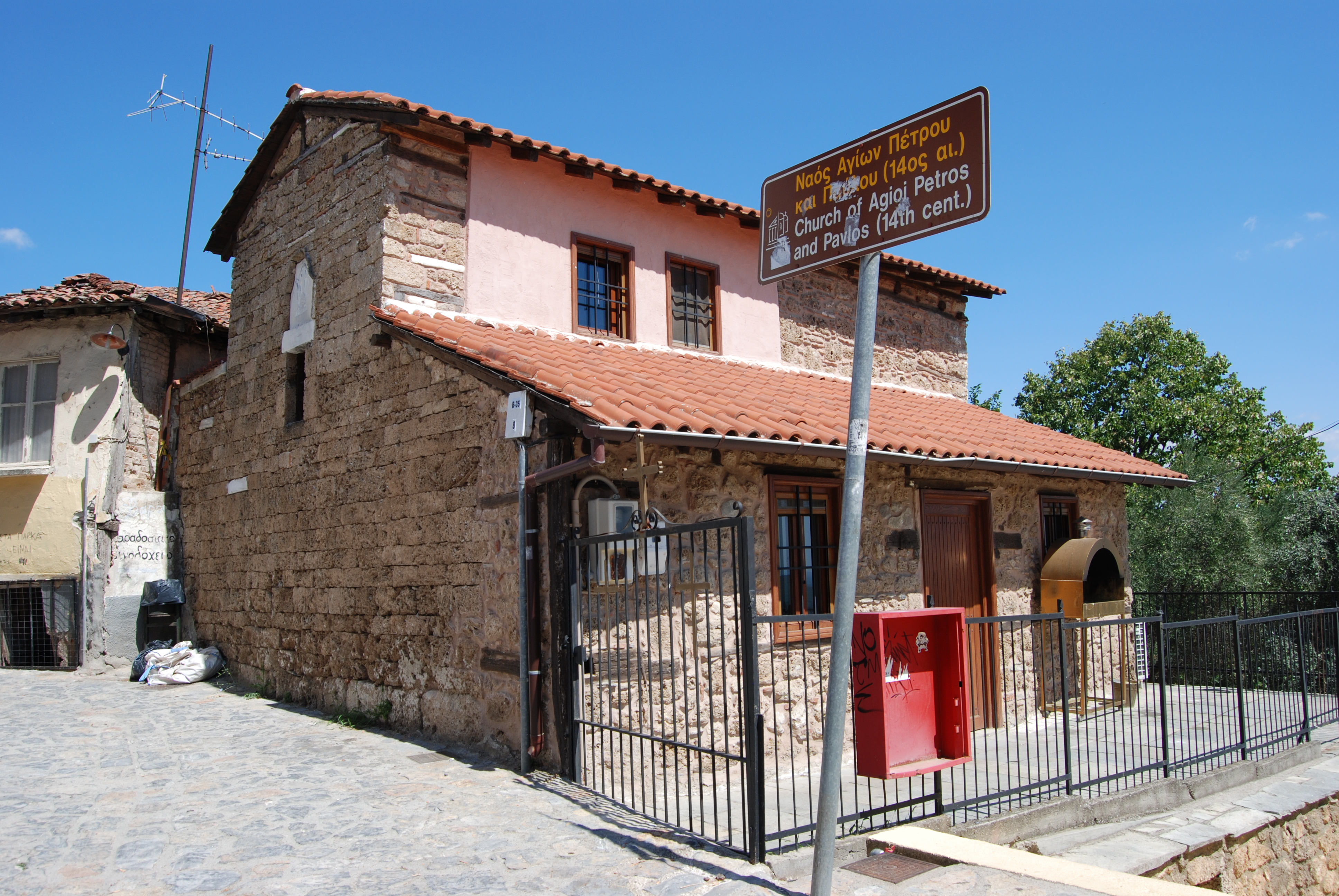 St. Petros and Pavlos, Voden